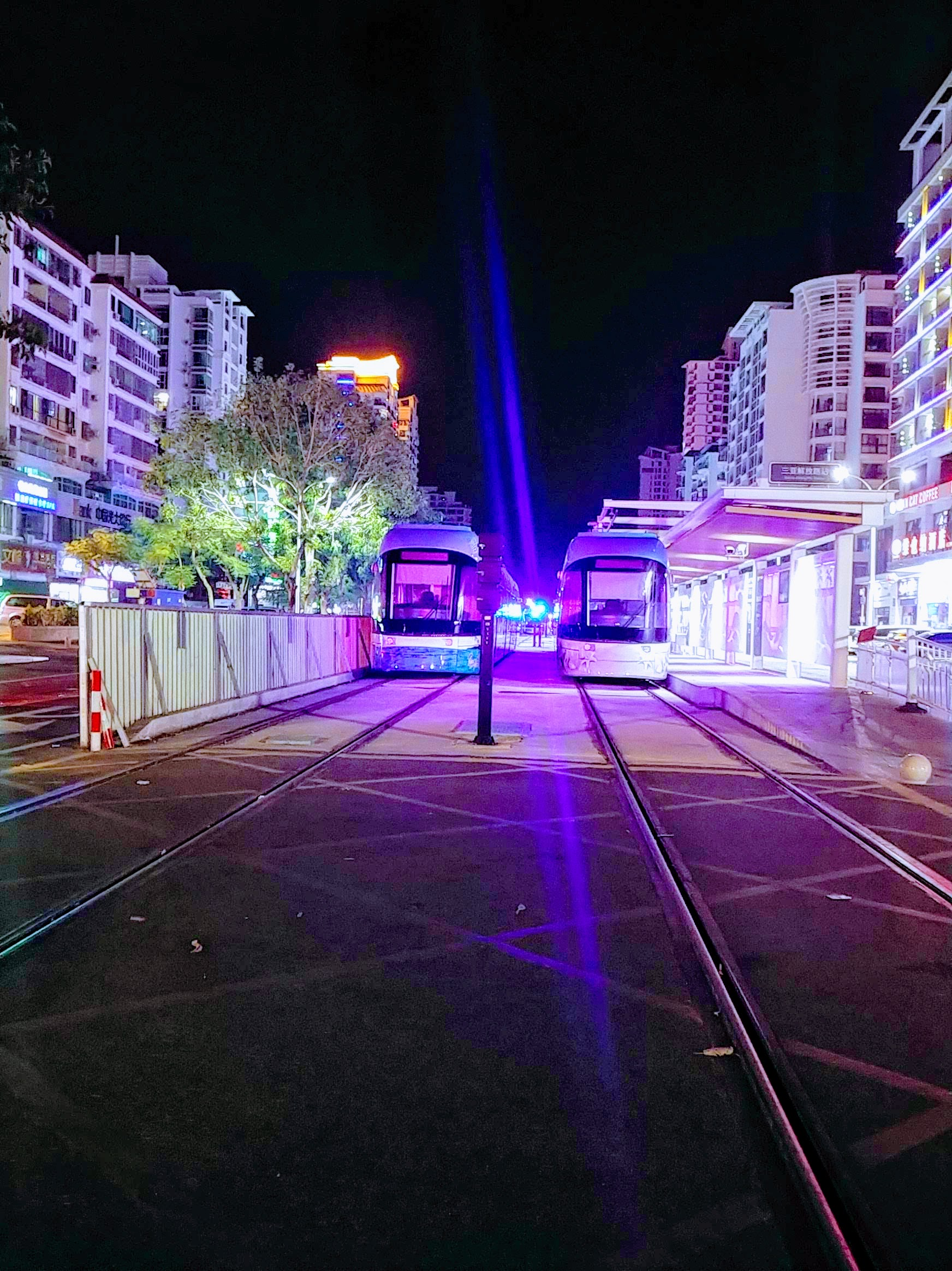 Sanya Tram (Jiefang Road Station)